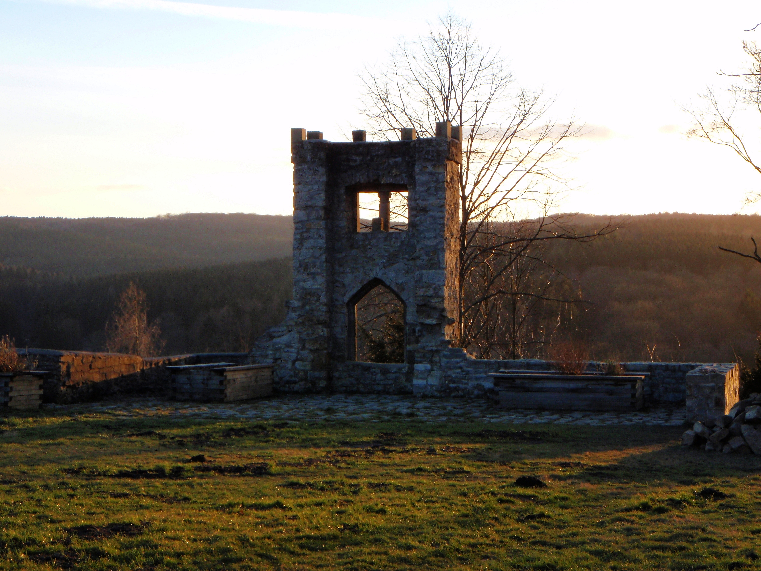 Remains of Castle Ringelstein near Büren, District of Paderborn, Germany.